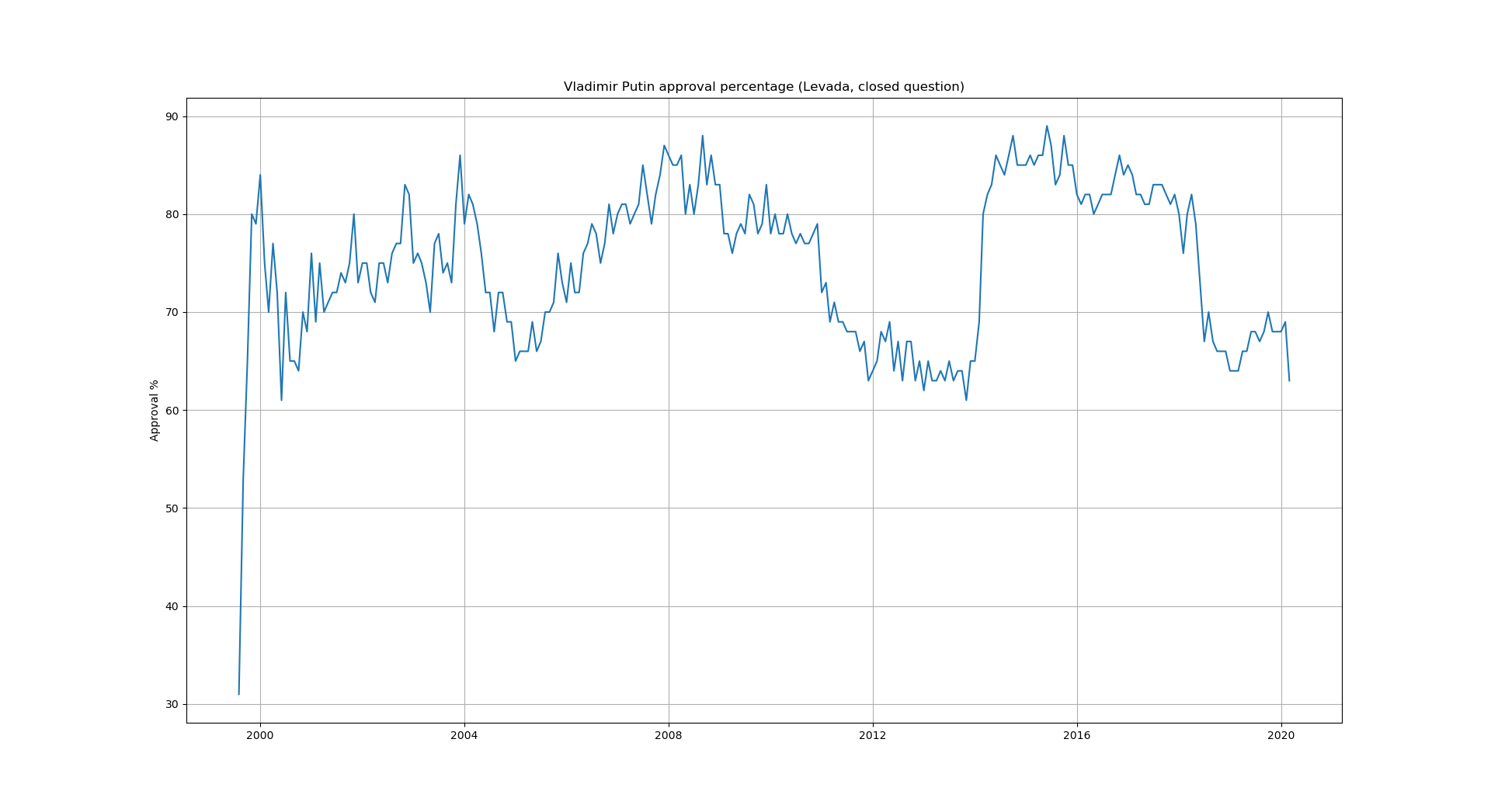 Chart of Vladimir Putin approval for the whole data set published by Levada Centr